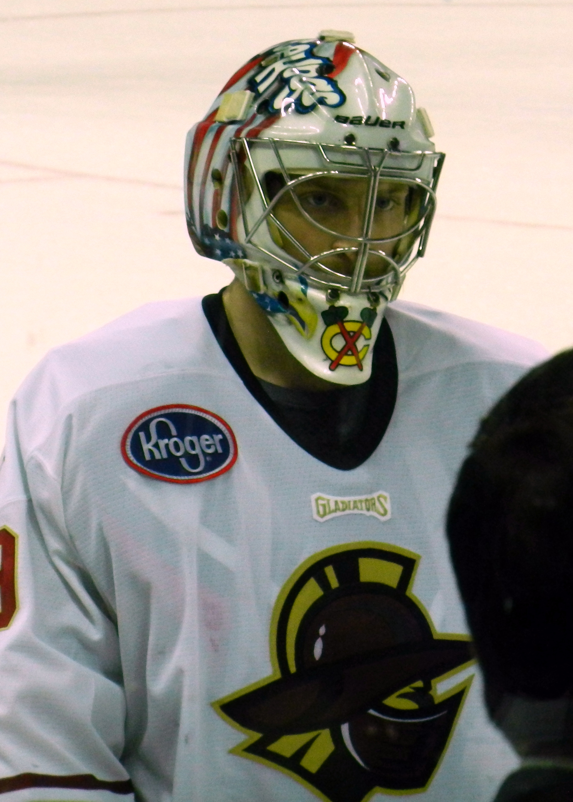 Joe Palmer playing for the Gwinnett Gladiators during the 2011-12 ECHL season